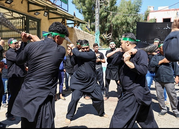 Ashura Ceremony in Syria- October 2017